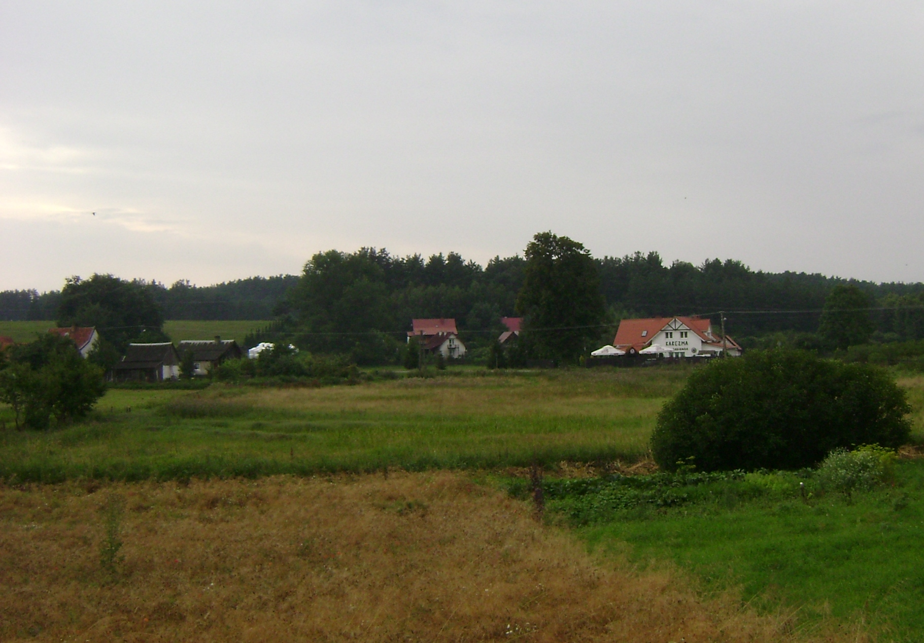 Burdąg